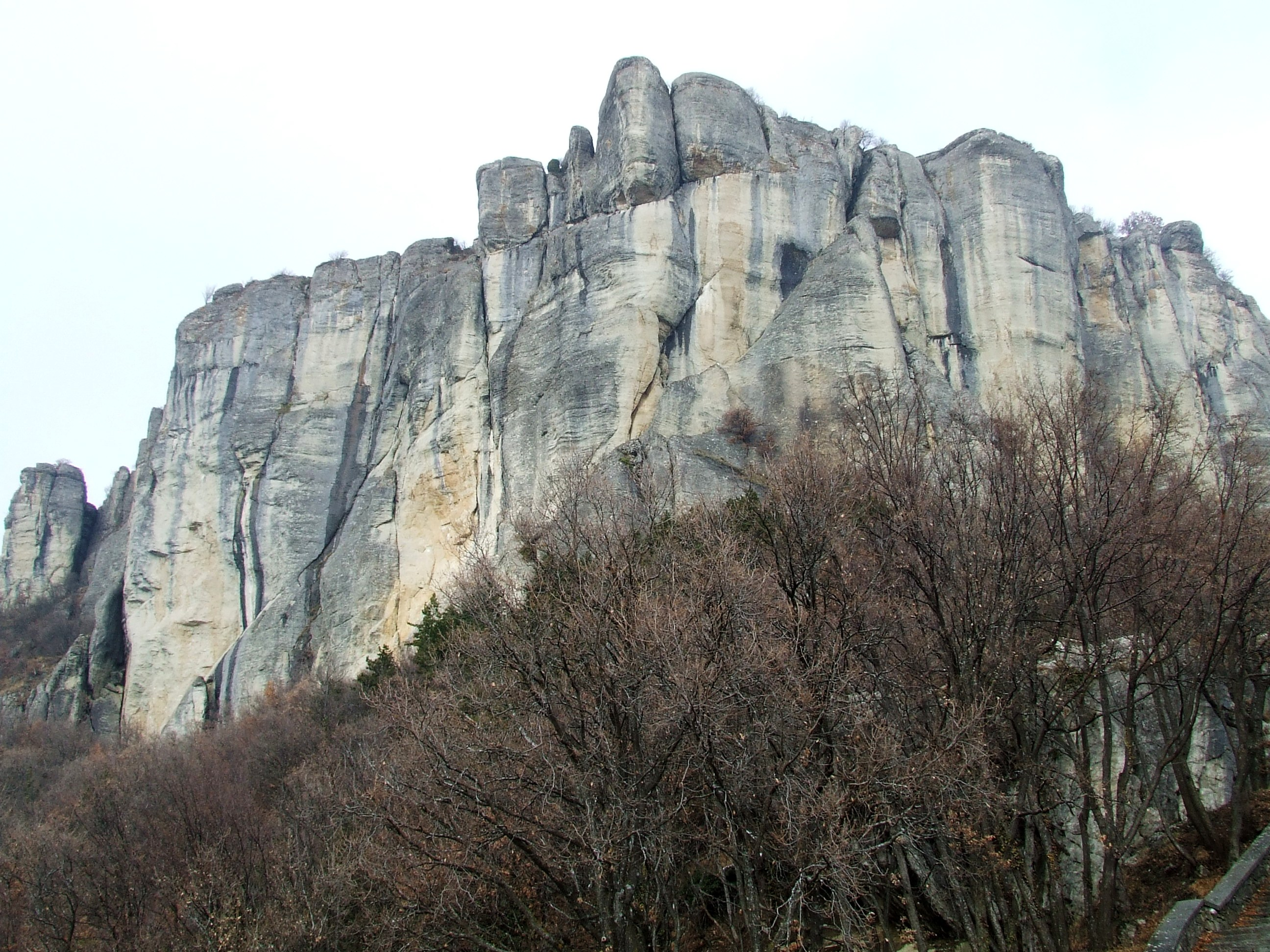 Pietra di Bismantova mountain in Italy, Castelnovo Monti, Provincia di Reggio Emilia, Italia